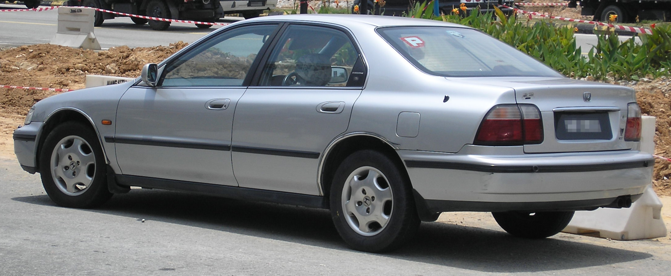 Rear quarter view of a fifth generation, first facelift Honda Accord in Serdang, Selangor, Malaysia.